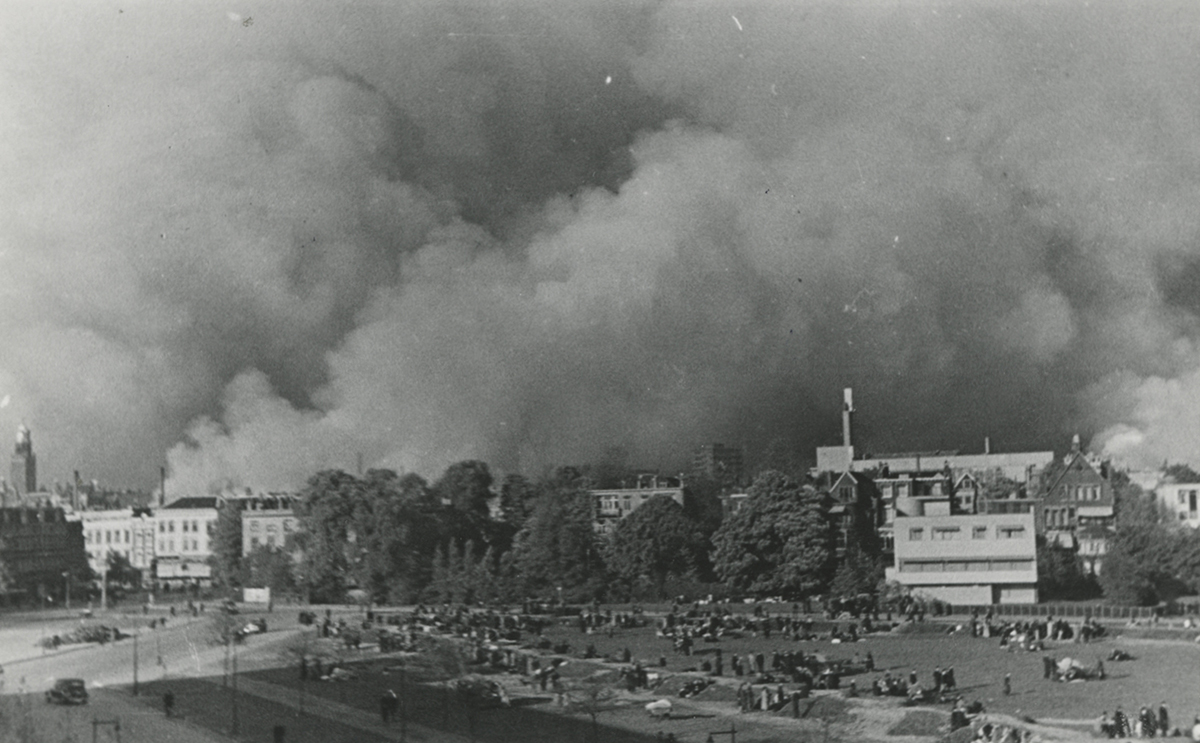 People gathering during the bombing of Rotterdam, May 1940. The Sonneveld House is seen on the right. Photo from the archives of the Sonneveld family. The New Institute Collection, BIHS Archive The Sonneveld House was built in the early 1930’s, it’s a perfect example of the ‘Nieuwe Bouwen’ functionalist style, designed by architecture firm Brinkman and Van der Vlugt. Much of its furniture was designed by W.H. Gispen. It’s now a House Museum preserved by The New Institute and open for the public. The Sonneveld family's personal archive and the architects business archive contain great quantities of useful information about everyday life in the house and how it was designed and furnished.